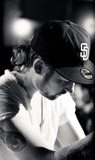 Jonny Craig at The Knitting Factory in 2009.